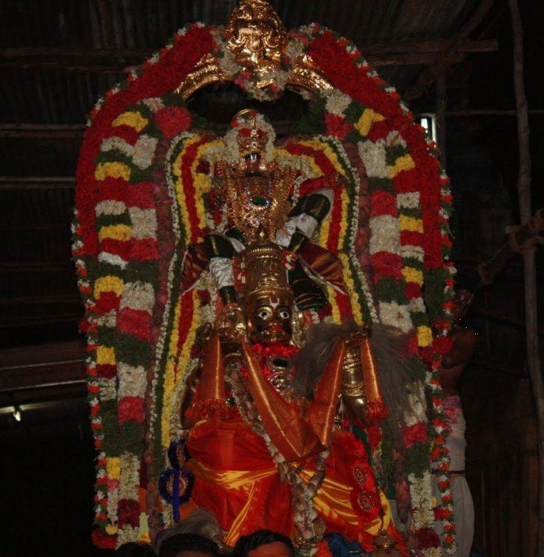 Garuda Sevai Annan Koil